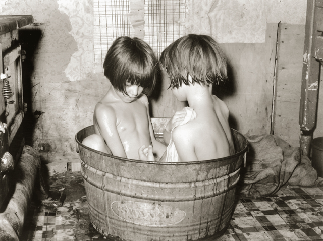 Kids bathing in a small metal tub. The tub reads "SWANEE", a reference to the Suwannee River via Stephen Foster's song "Old Folks at Home".